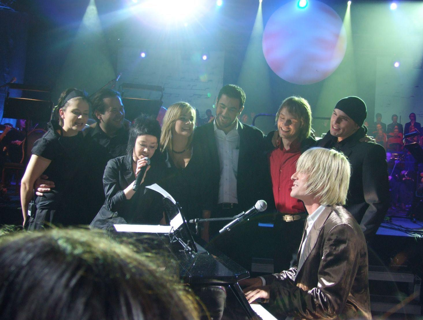 Piotr Rubik, Michał Gasz, Grzegorz Wilk, Michał Bogdanowicz, Zofia Nowakowska, Jakub Wieczorek, Marta Moszczyńska, Anna Józefina Lubieniecka